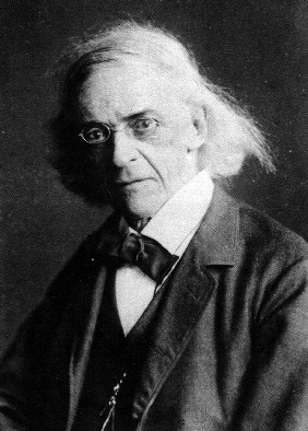 Theodor Mommsen (d. 1903)